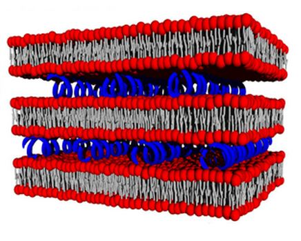 Schematic representation of a lipoplex containing nucleic acids (blue) stabilized by bilayer of lipids: hydrophilic groups (red), hydrophobic fatty acid chain (grey).